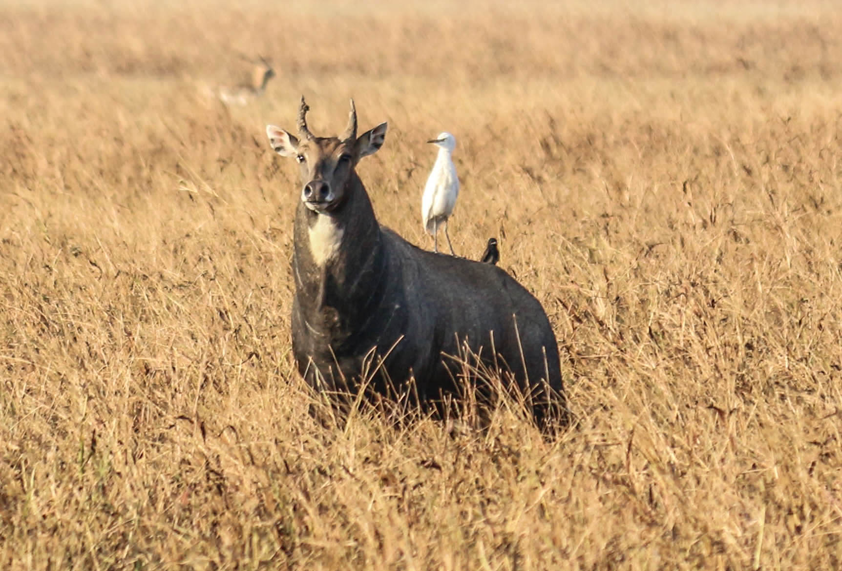 Male Nilgai (Boselaphus tragocamelus) in Blackbuck National Park, Velavadar, India